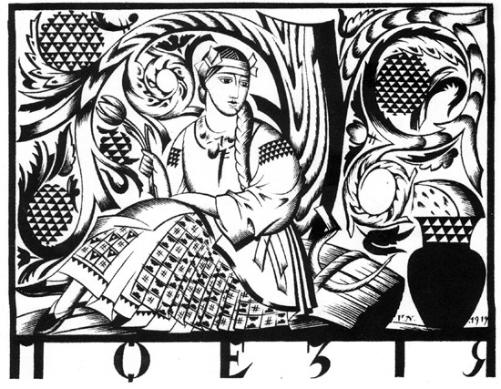 Graphic for the chapter "Poetry" in the Ukrainian journal "Mystetstvo" 1919